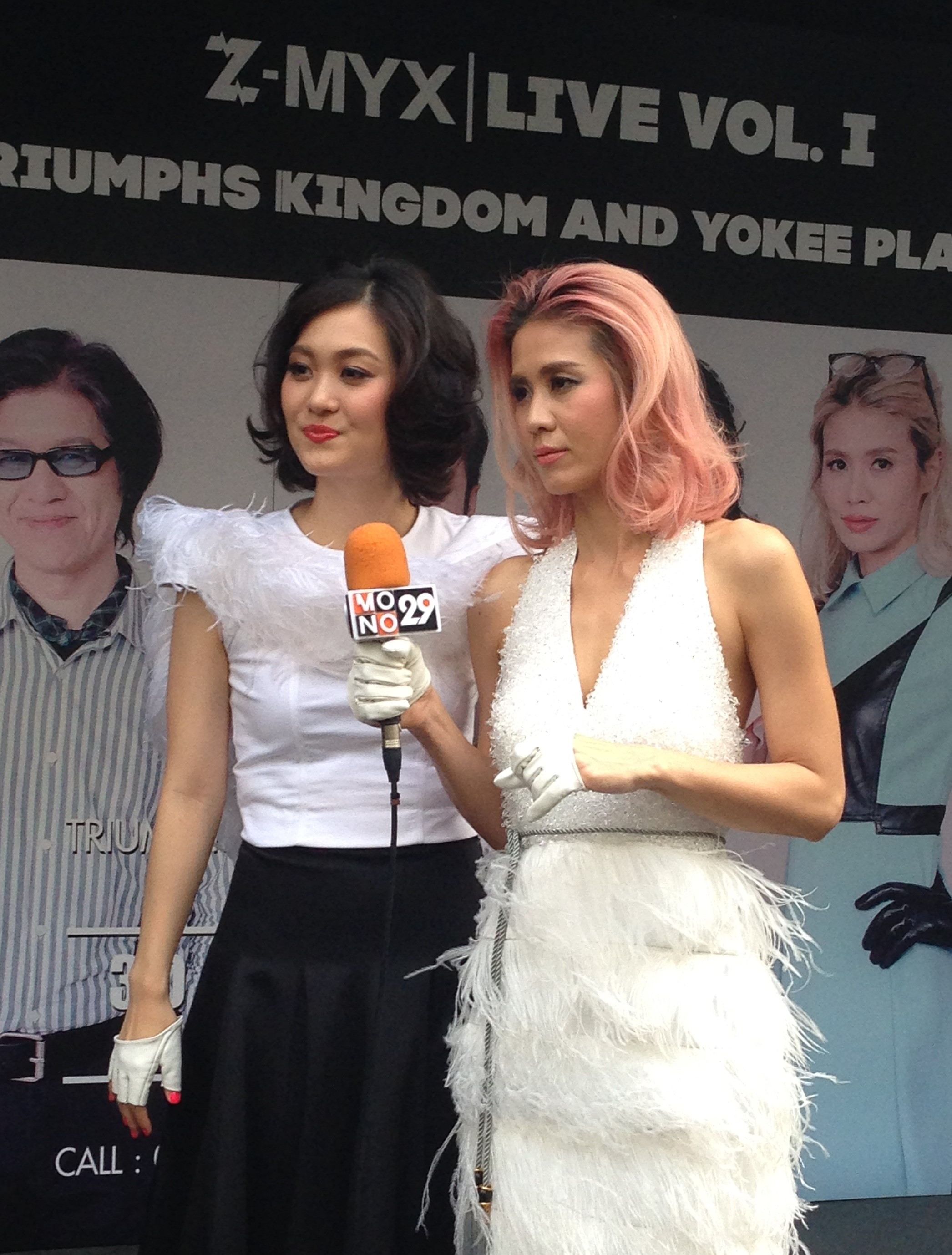 Triumphs Kingdom at pressconference of Z-MYX LIVE VOL.1 WITH TRIUMPHS KINGDOM AND YOKEE PLAYBOY